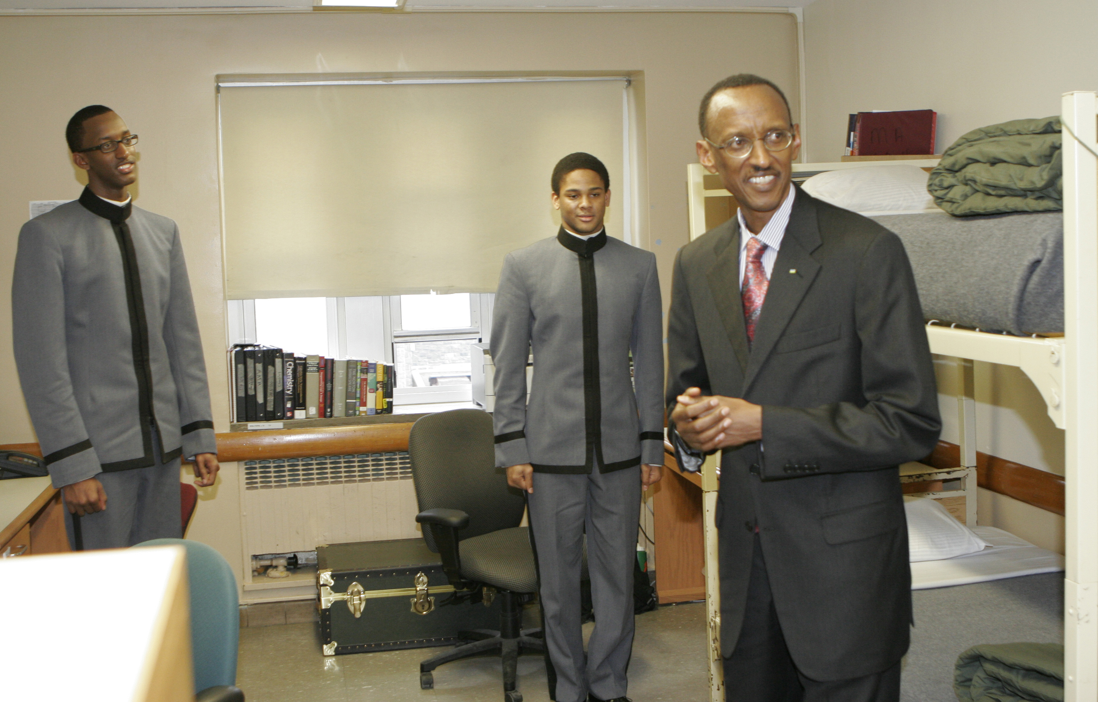 President of the Republic of Rwanda Paul Kagame marvels at the cramped space of his son Ivan's (far left) barracks room at the United States Military Academy during Plebe-Parent Weekend March 13. Ivan is a member of the West Point Class of 2013 and one of 58 International Cadets from 37 countries that attends the academy. Pres. Kagame served as the guest speaker for the Plebe Parent Banquet. See more at Rwanda president visits West Point